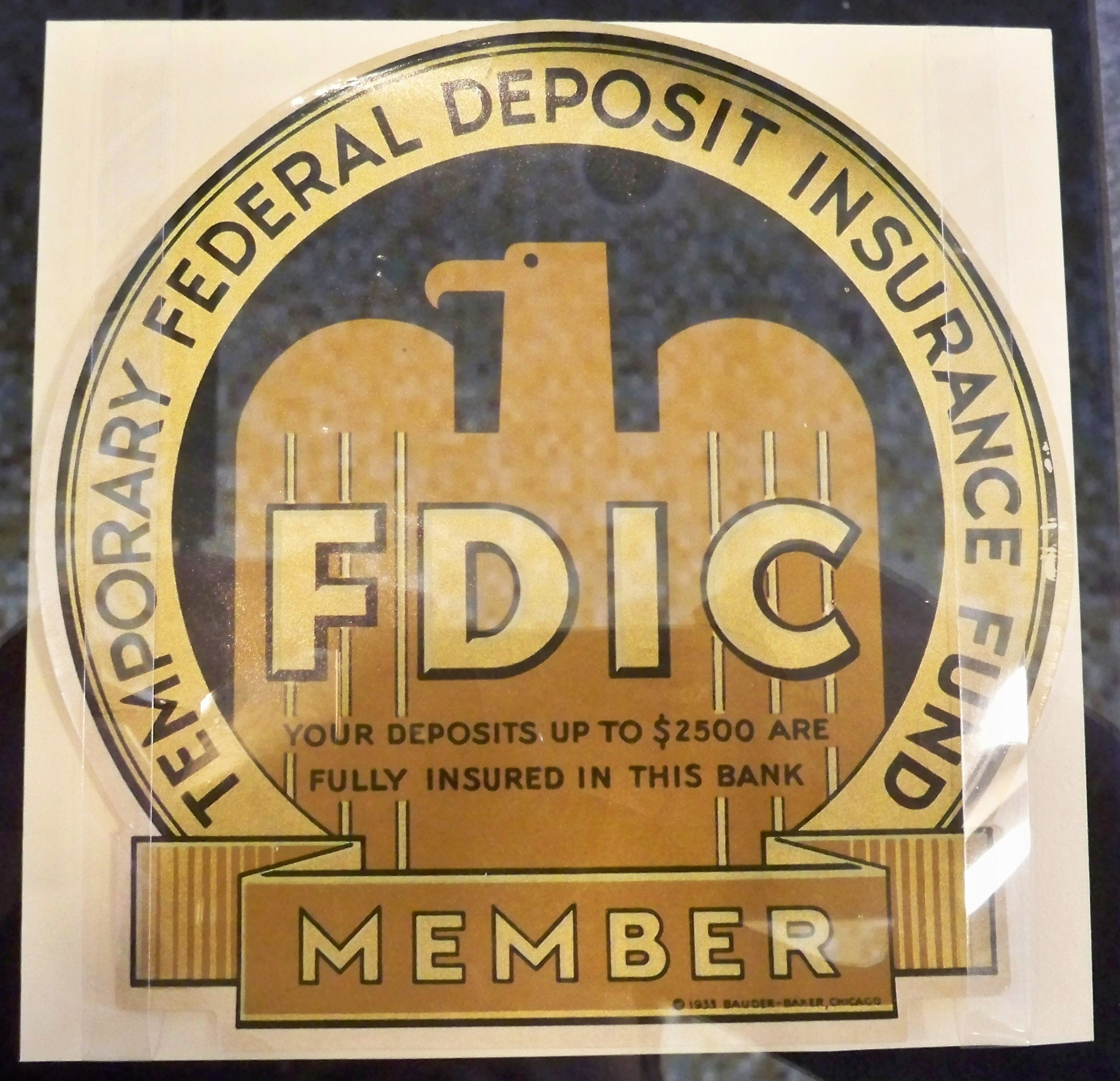 FDIC placard from when the deposit insurance limit was $2,500.